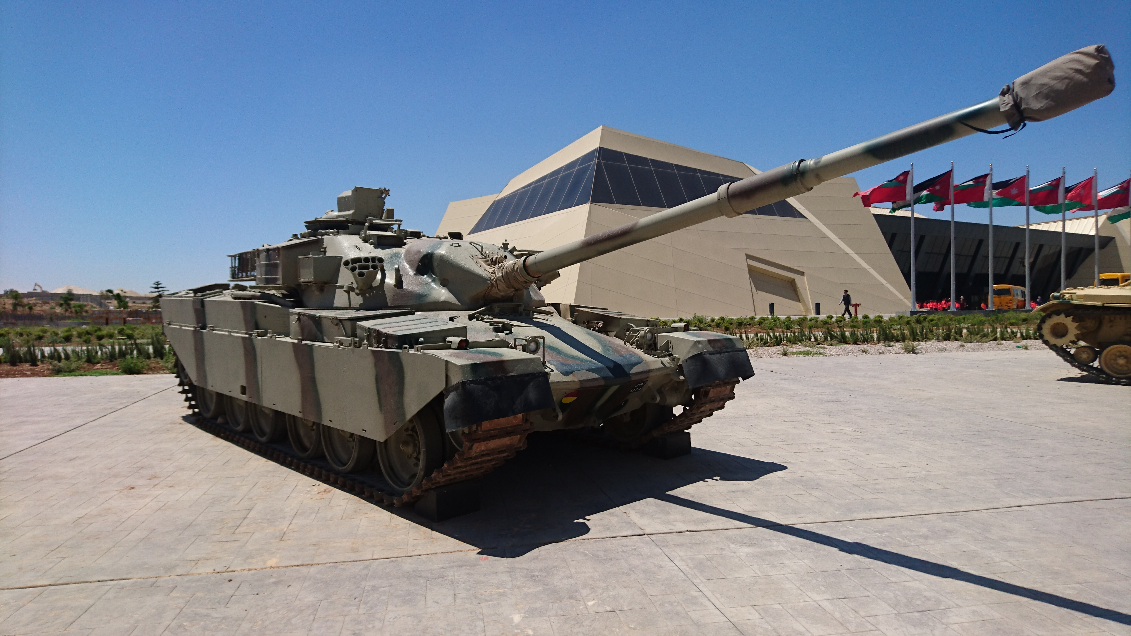 Royal Tank Museum in Amman, Jordan.